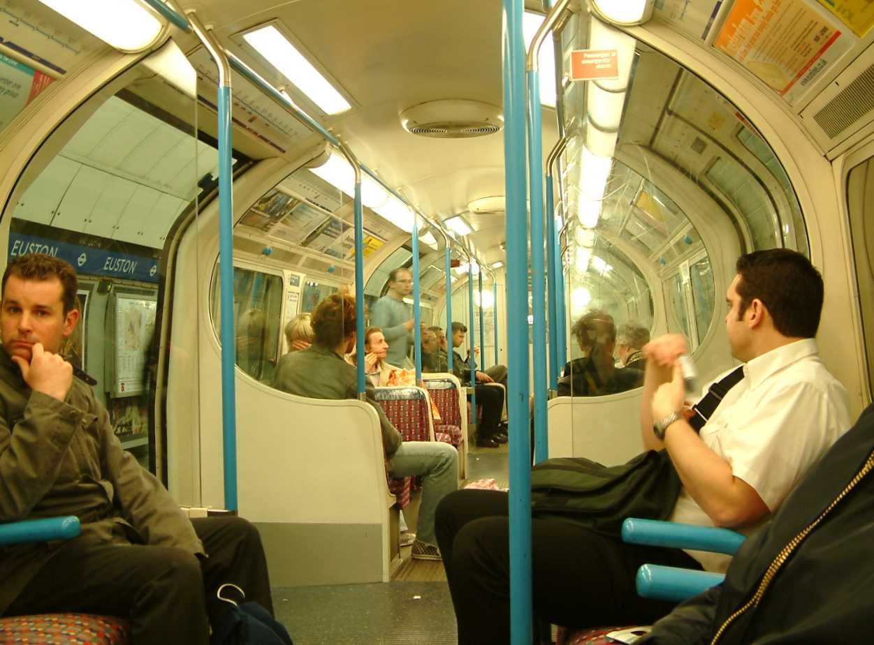 1967 Stock Victoria Line carriage - internal - night - London - England - 240404 Photo taken by Tagishsimon on the 24th April 2004